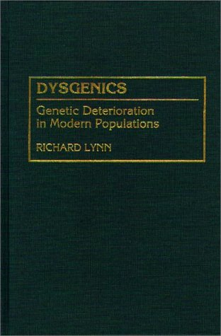 Cover of Dysgenics: Genetic Deterioration in Modern Populations by Richard Lynn.